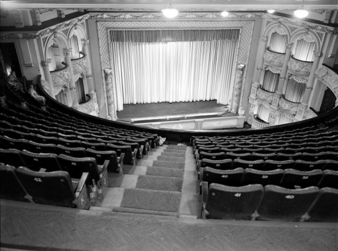 St James Theatre Wellington, designed by Henry Eli White, built 1912, in the 1930s